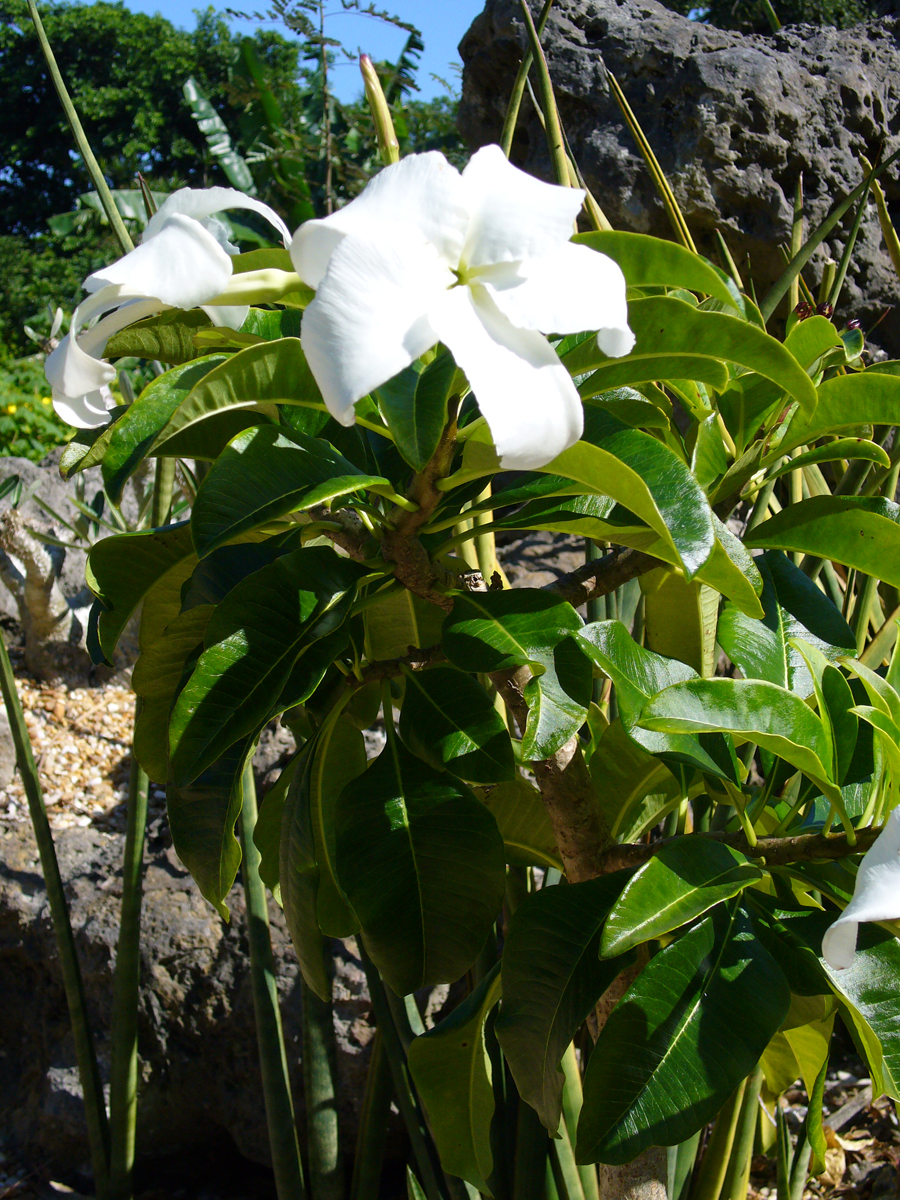 Pachypodium decaryi, Fairchild Tropical Botanic Garden, Miami, Florida